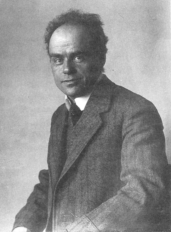 Photograph of the Finnish composer Emil Kauppi (1875–1930).